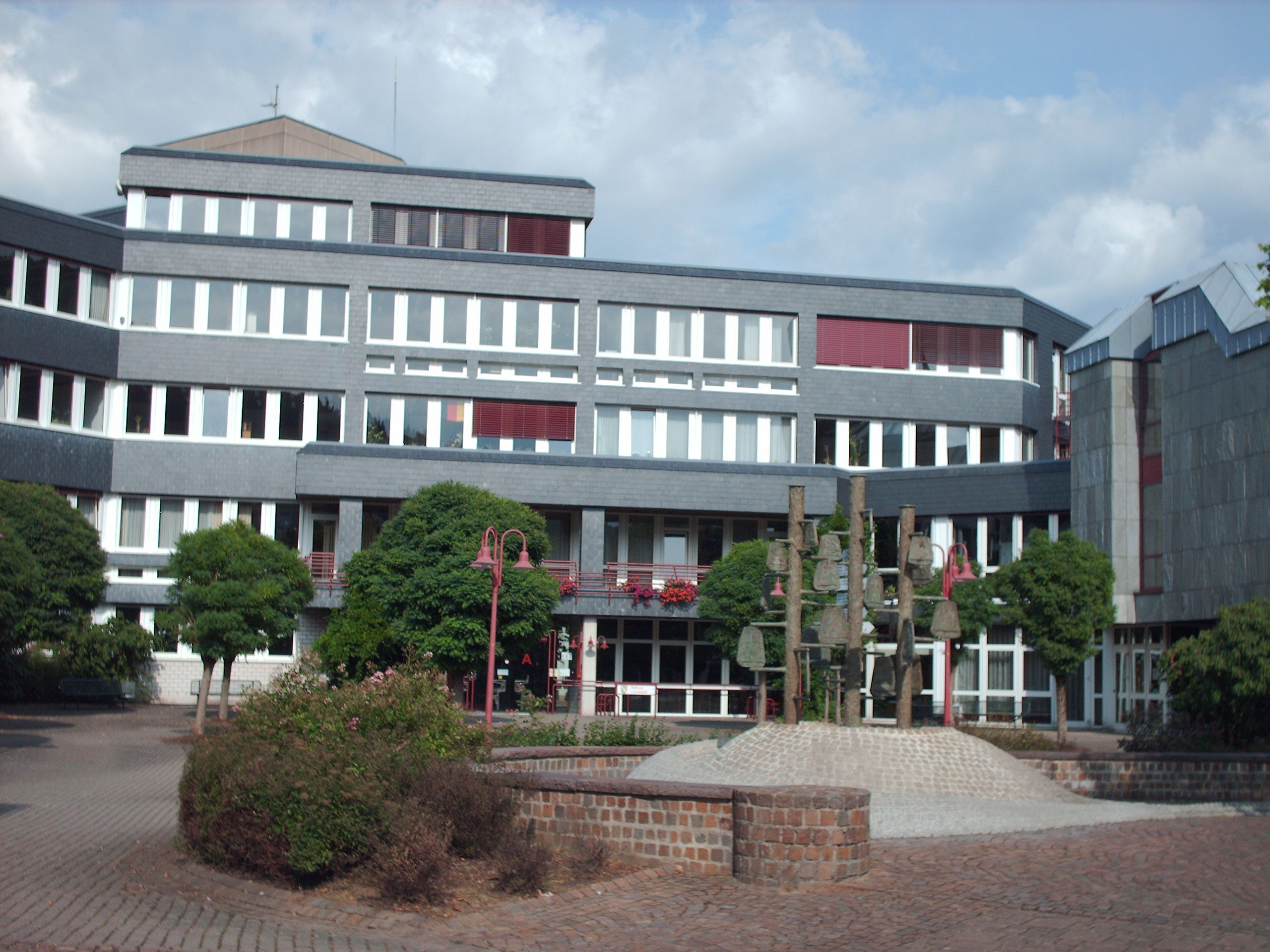 Town hall with Thomas-Morus-Platz, Lennestadt, Germany check usage